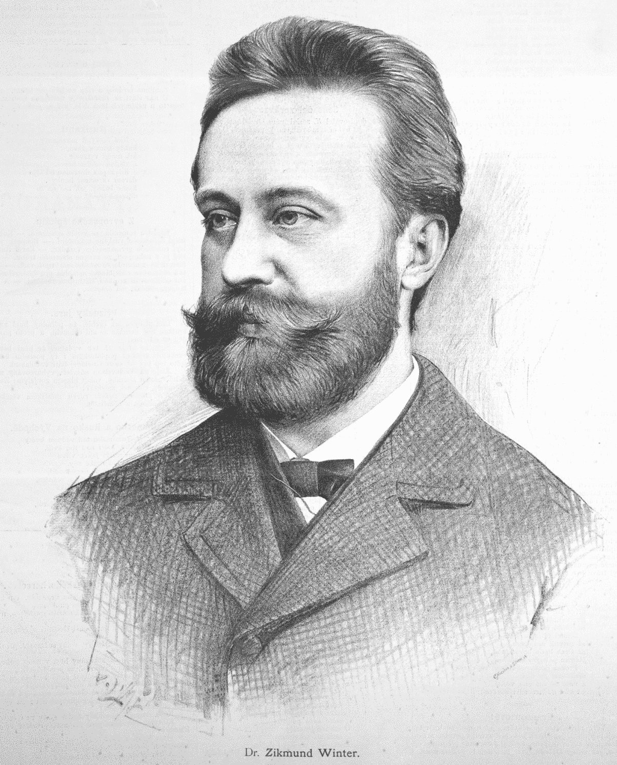 Portrait of Zikmund Winter, Czech professor of history and writer of historic novels.